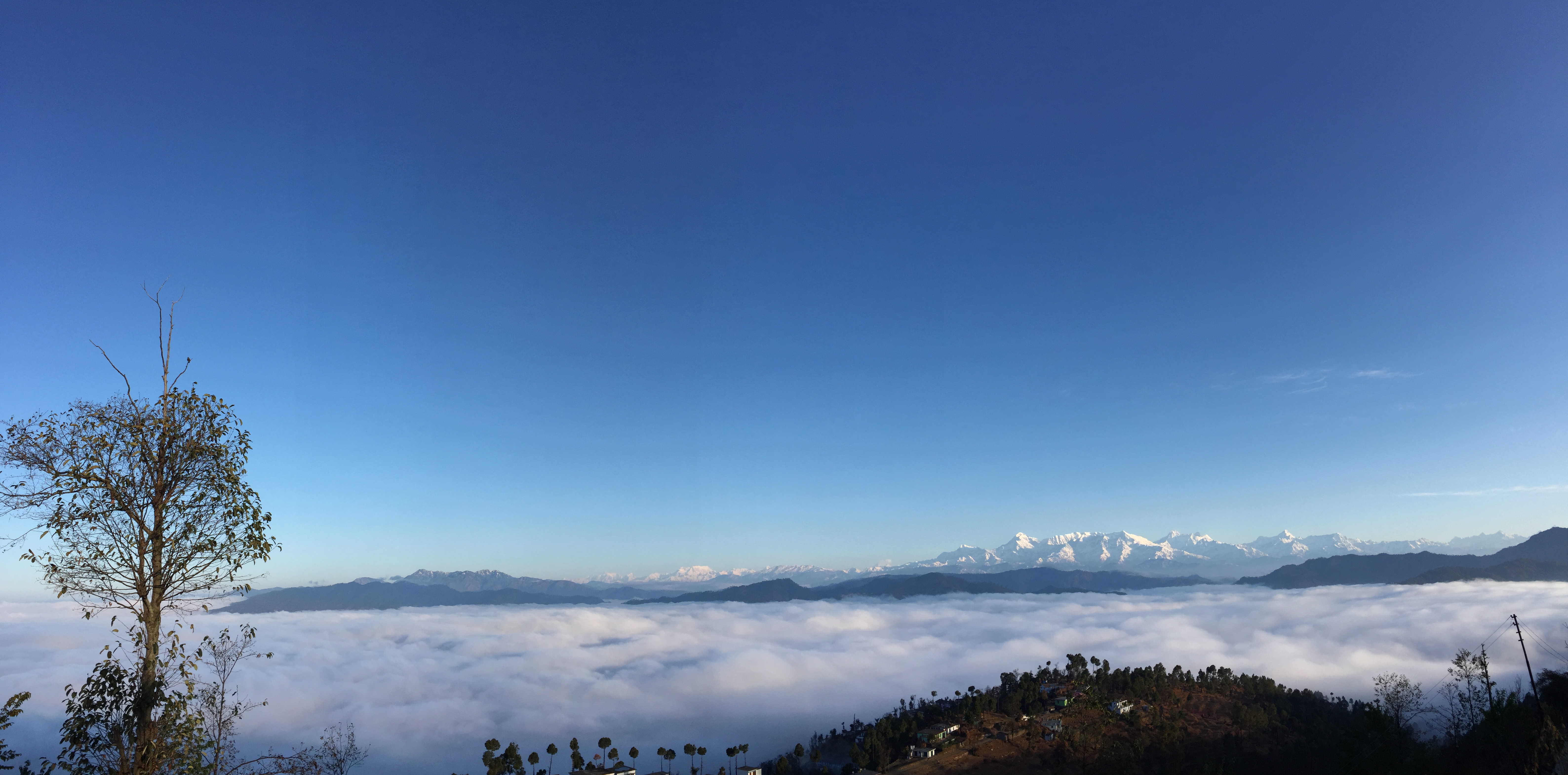 View from Almora of Nanda Devi and the surrounding mountain range. Nanda Devi is the second highest mountain in India.